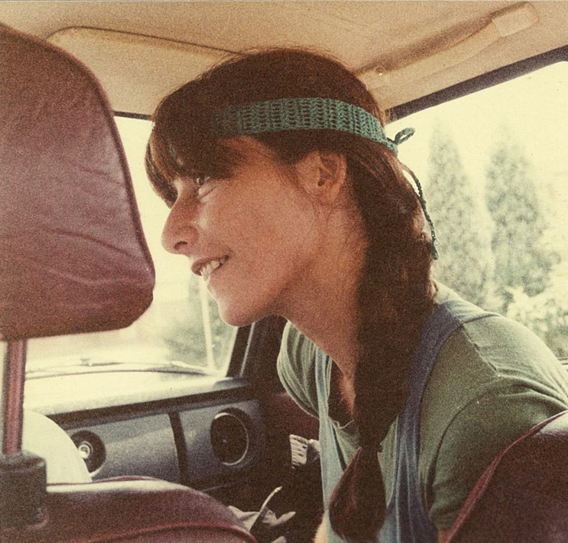 GioiaBenelli